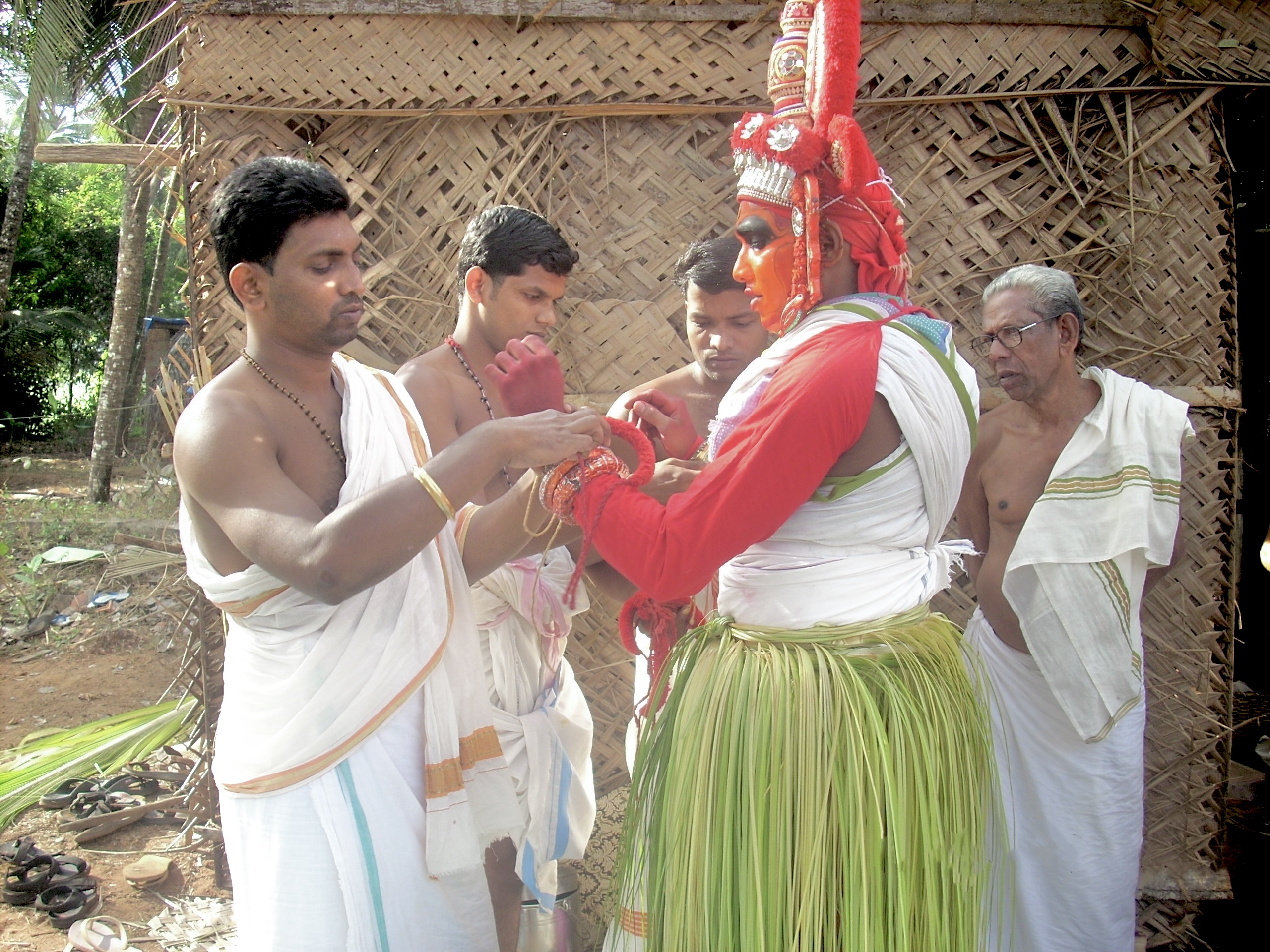 preparation of Theyyam at payyannur, kannur, kerala, India